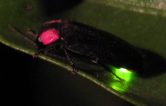 Japanese Firefly , Heike Botaru , Luciola lateralis . Mt. Tsukuba, Ibaraki, Japan.